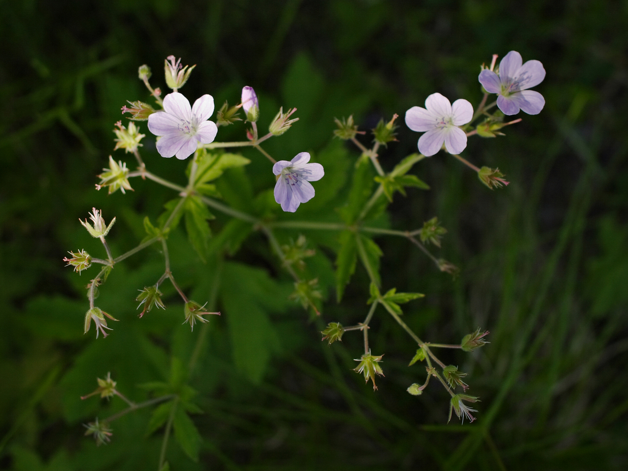 Wood Cranesbill (Geranium sylvaticum) Dysmorodrepanis 10:59, 28 May 2008 (UTC)